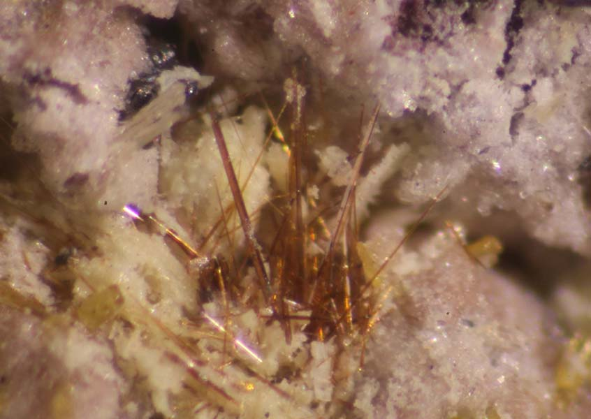 Yuanfuliite, from Nuestra Señora del Carmen Mines, Jumilla, Murcia, Spain